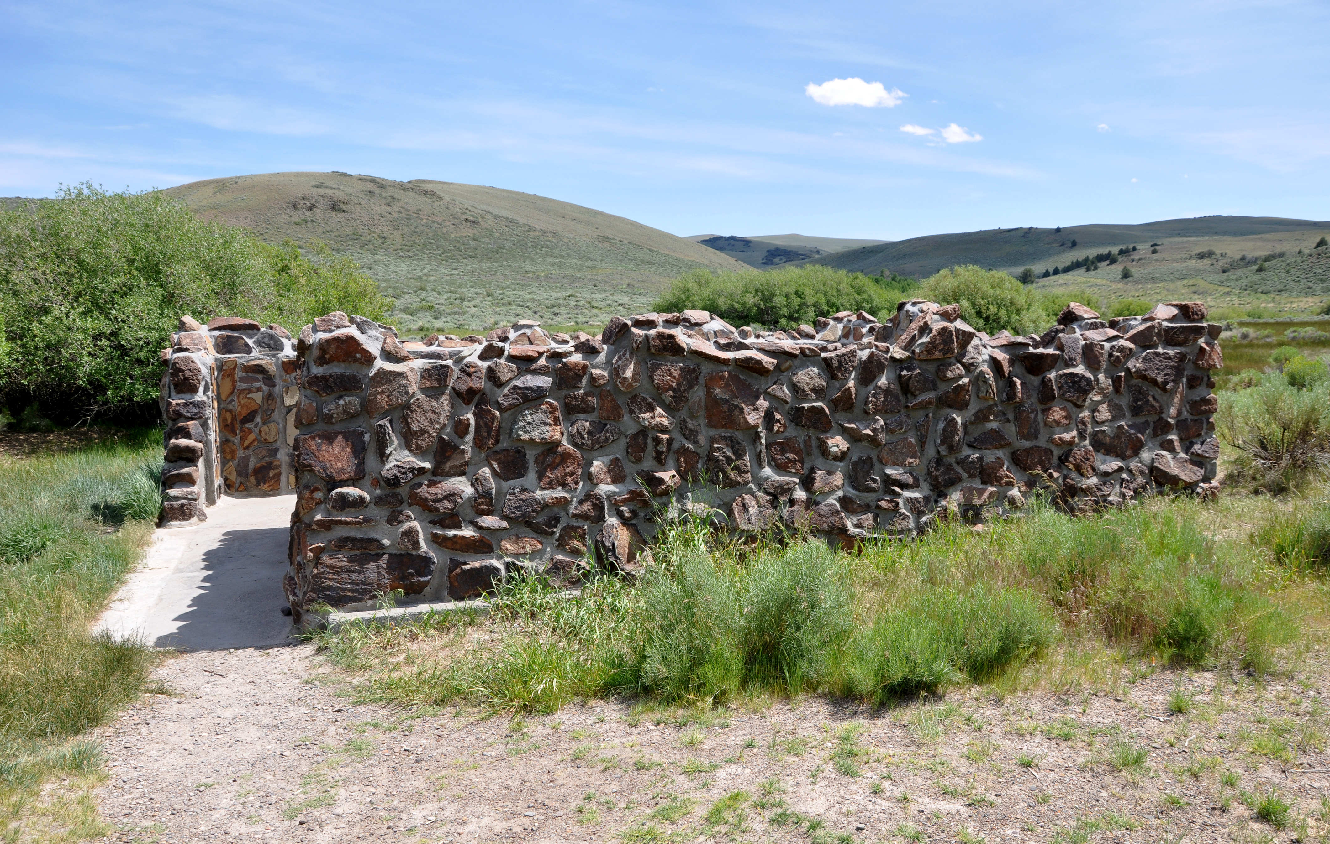 Stone structure surrounding a hot springs bathing pool at Hot Springs Campground on the Hart Mountain National Antelope Refuge in south-central Oregon in the United States.